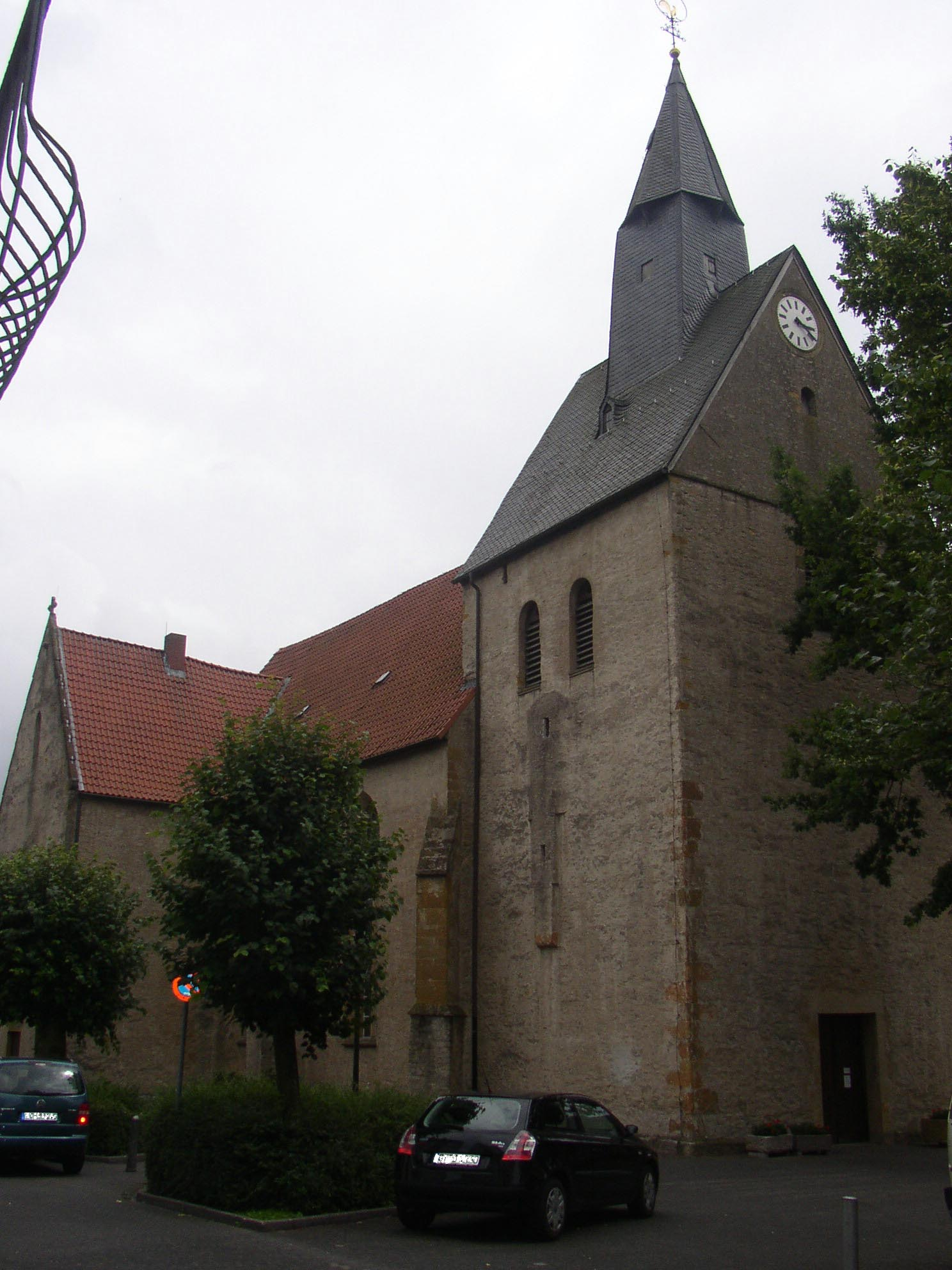 protestant parish church in Borgholzhausen, County of Gütersloh, Germany